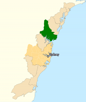 This image incorporates data that is: © Commonwealth of Australia (Australian Electoral Commission) 2009 Division of Robertson 2010